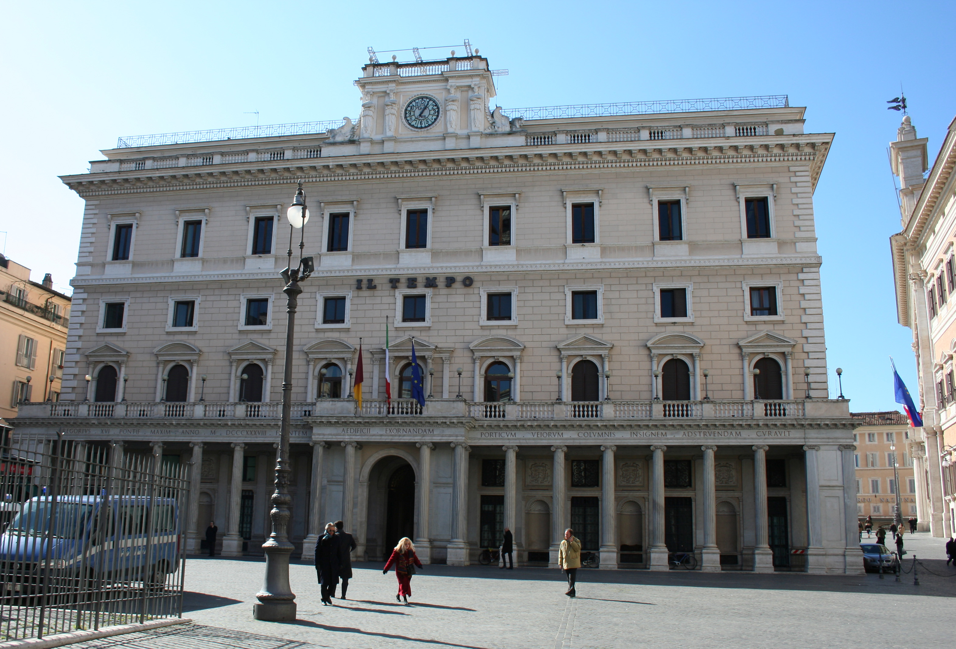 Offices of the Il Tempo newspaper, Rome Italy